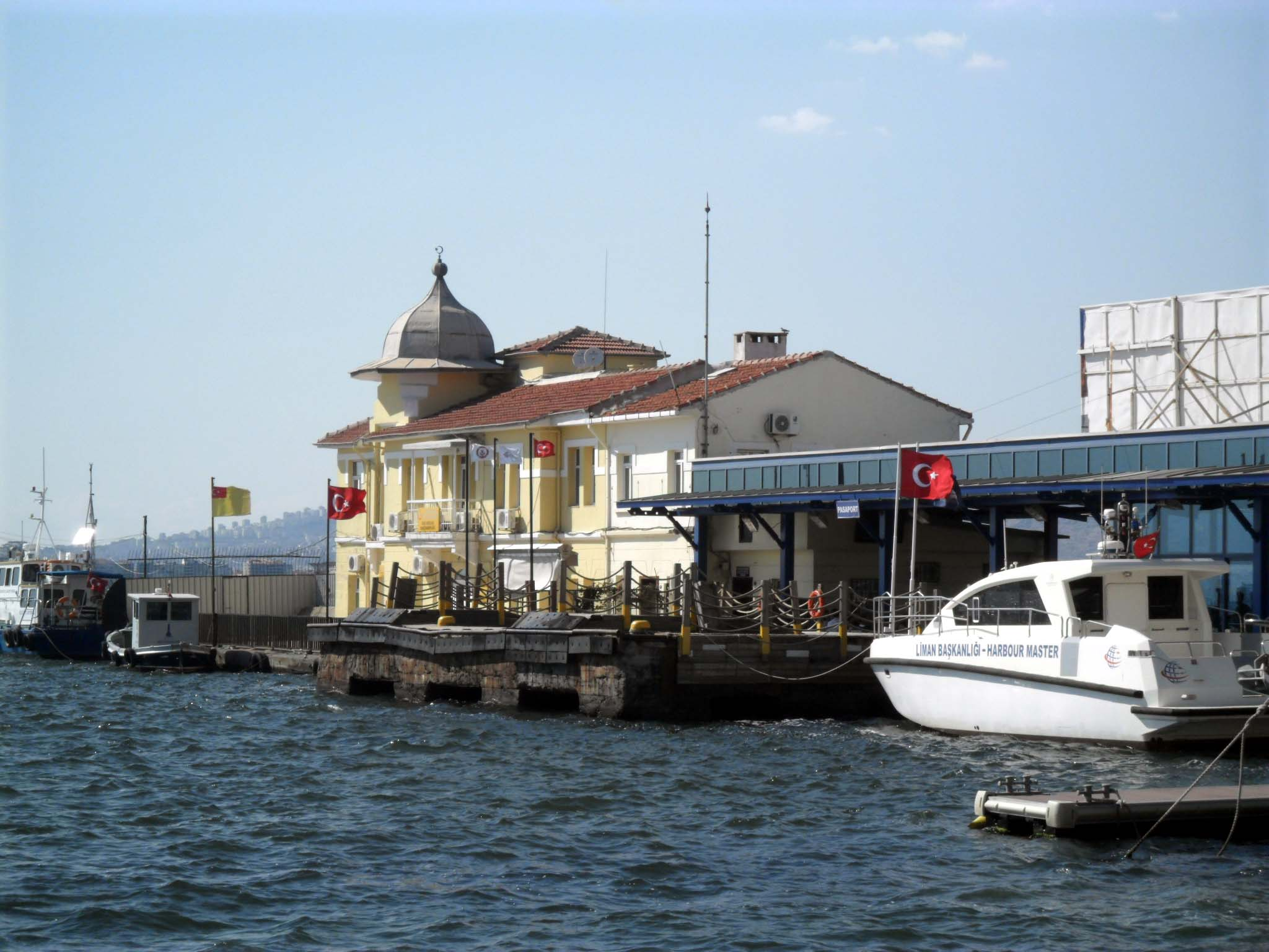 Pasaport Terminal, İzmir Turkey from the West